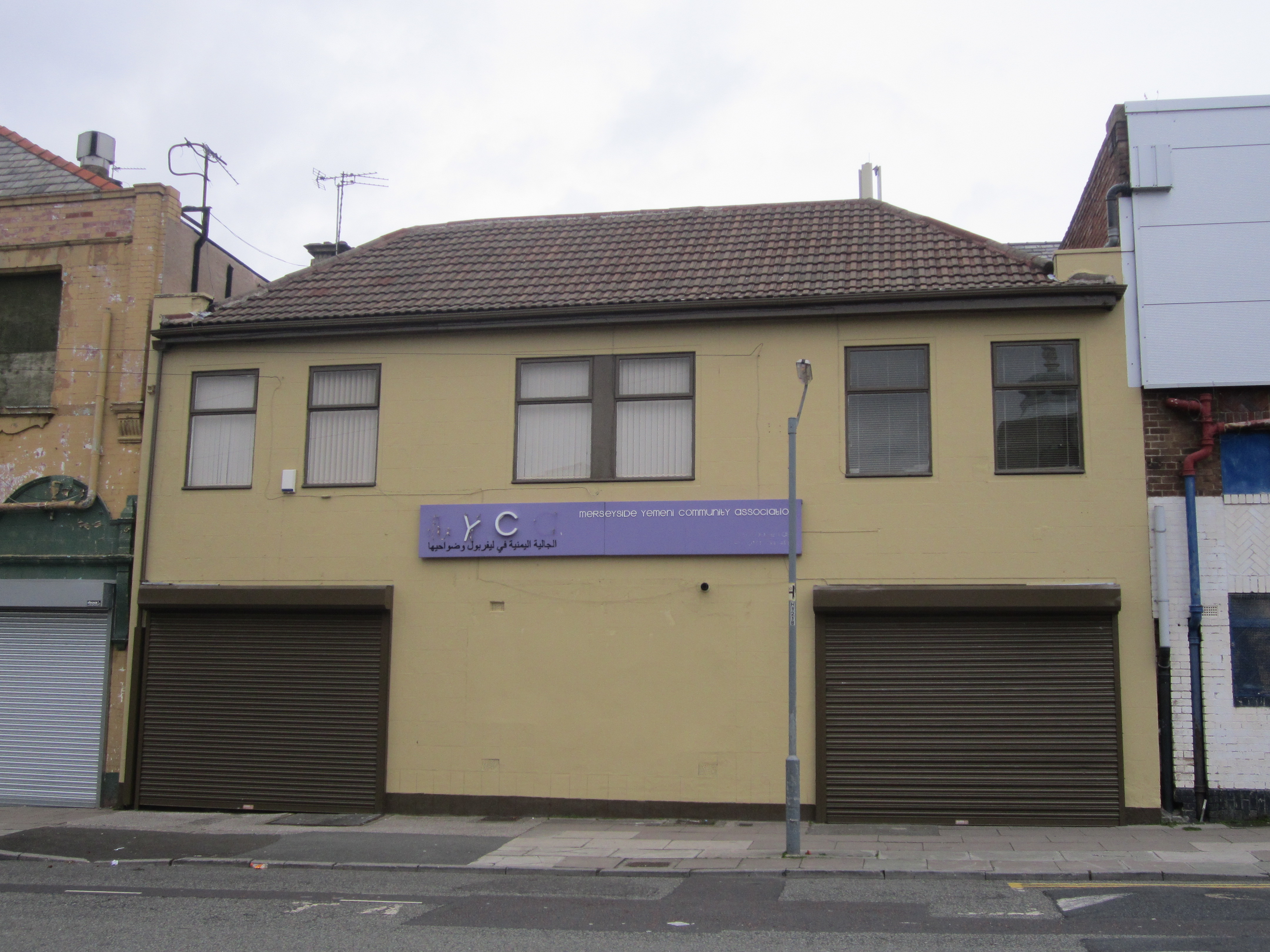 Merseyside Yemeni Community Association, Beaumont Street, Toxteth, Liverpool, England.